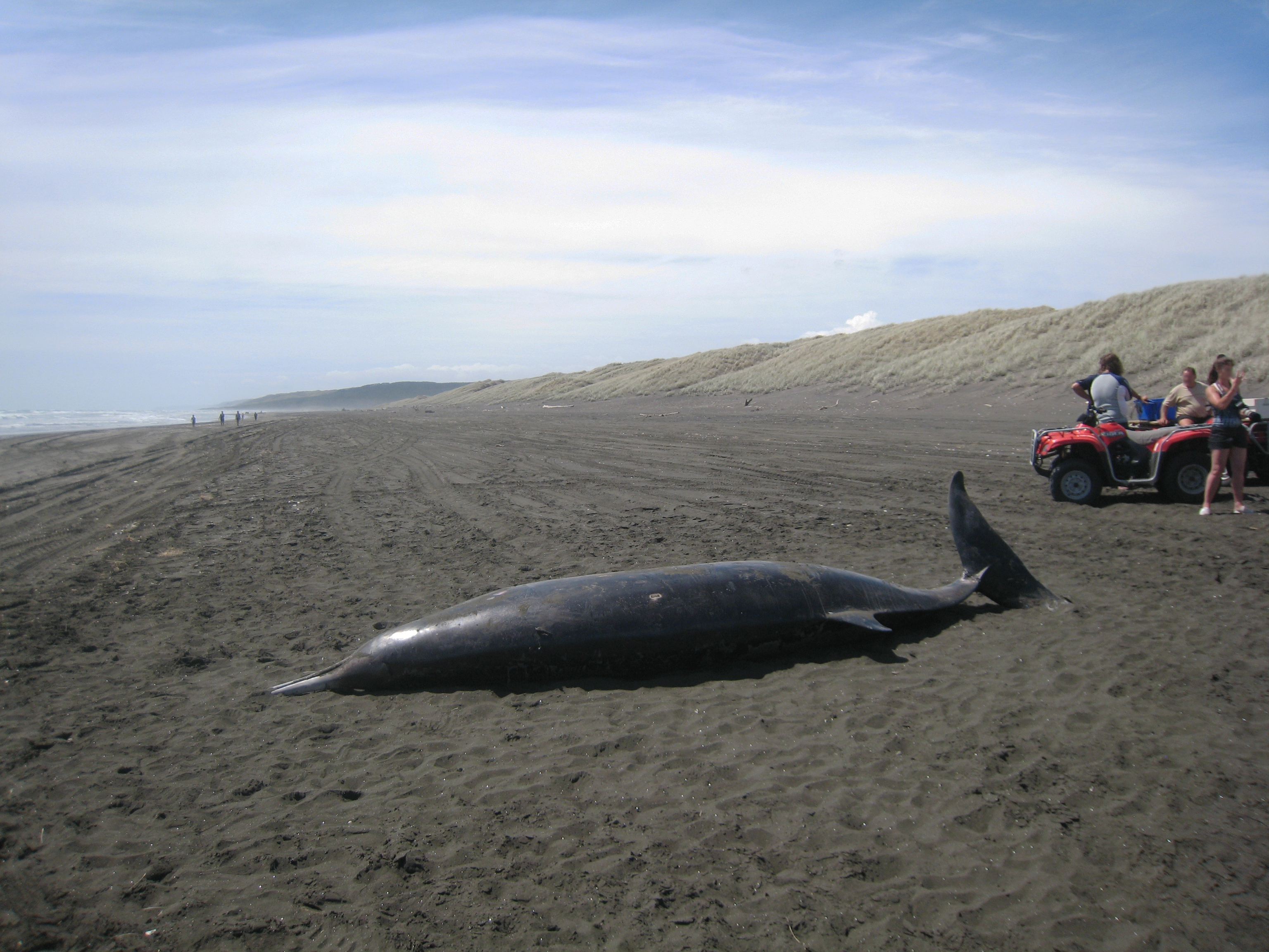 An adult female whale, one of a group of five who stranded and died (with the exception of one juvenile, who was successfully refloated) on Sunset Beach at Port Waikato on 13 January 2011. They are believed to be Gray's beaked whales (Mesoplodon grayi), although DNA testing is required to confirm this. See e.g. Single whale survives stranding, Waikato Times, 13 January 2011. The end of this whale's beak was buried in the sand, so it was longer than it appears here.